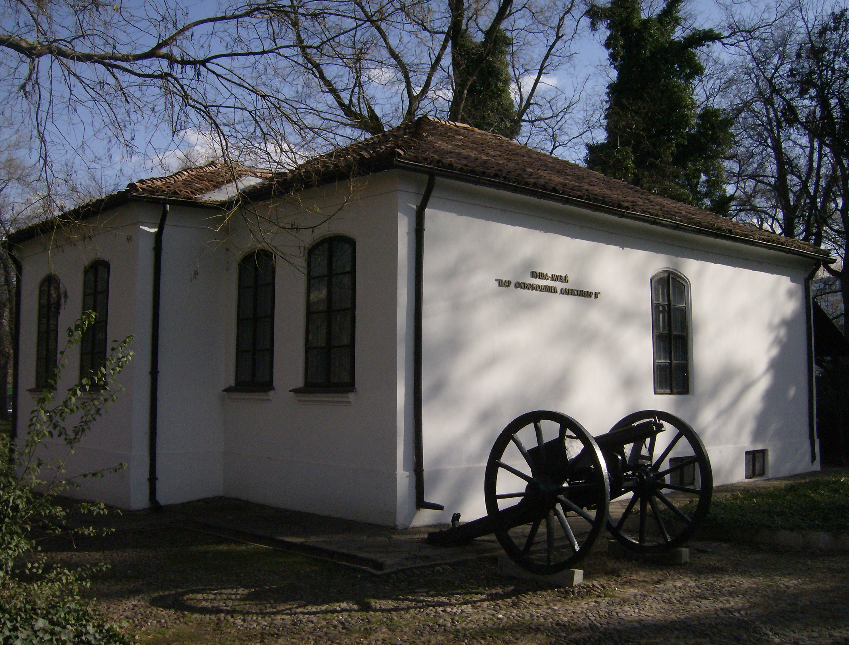 Museum Tzar Osvoboditel